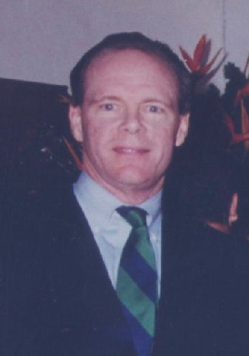 Richard Mahoney Former Secretary of State (Arizona)